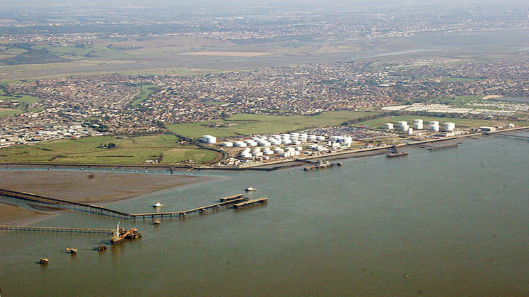 aerial photo of Canvey oil storage and jetties